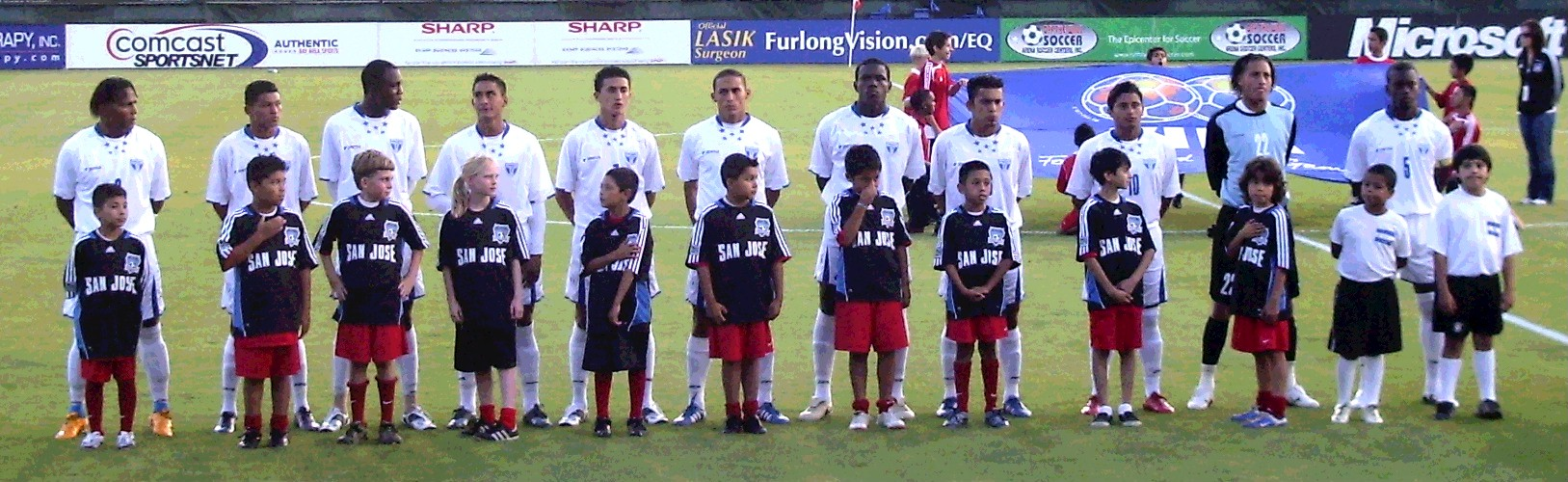 Honduran Olympic Team 2008 in California